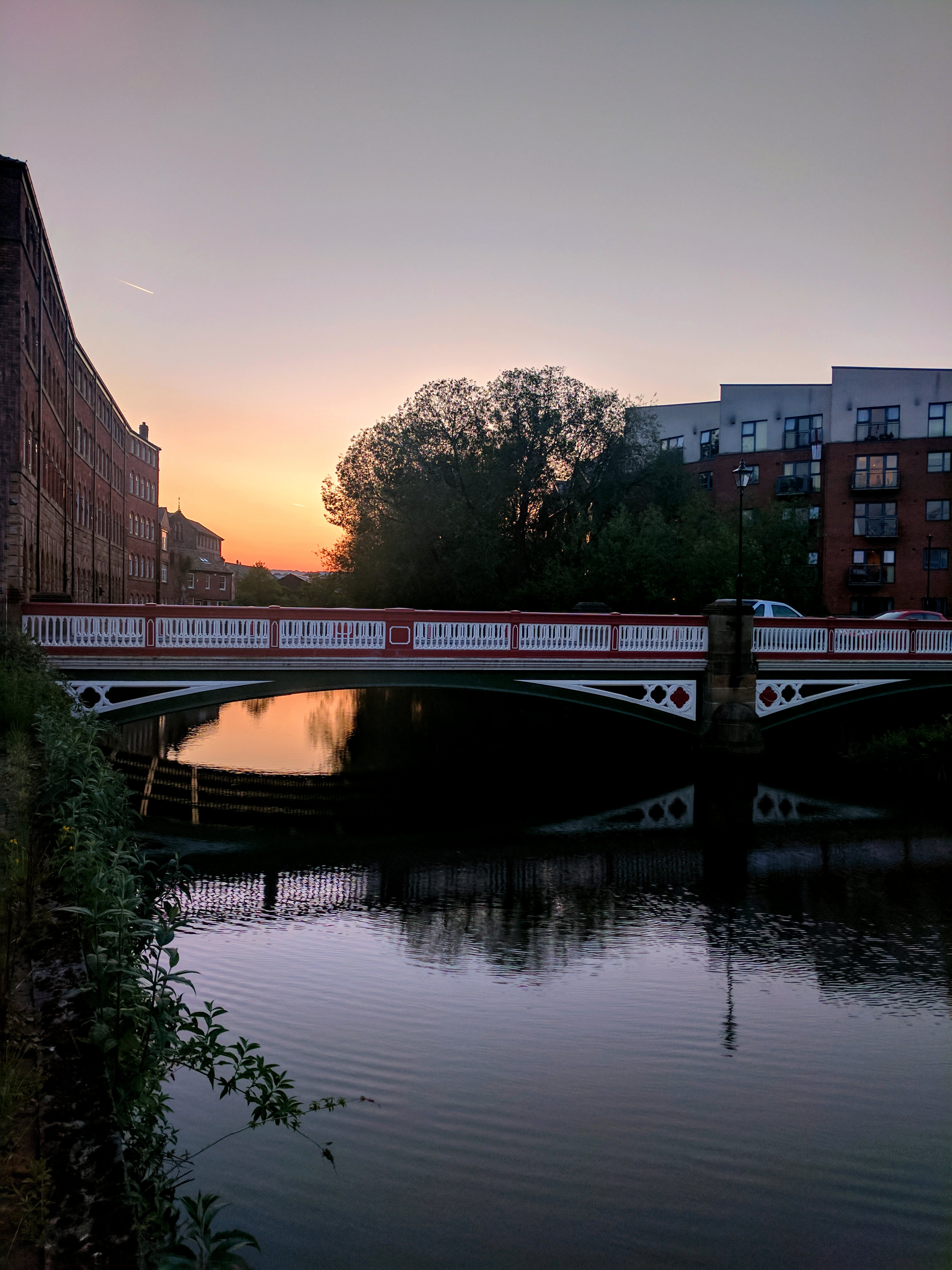 Ball Street Bridge, Kelham Island, Sheffield Wikidata has entry Q26538915 with data related to this item.